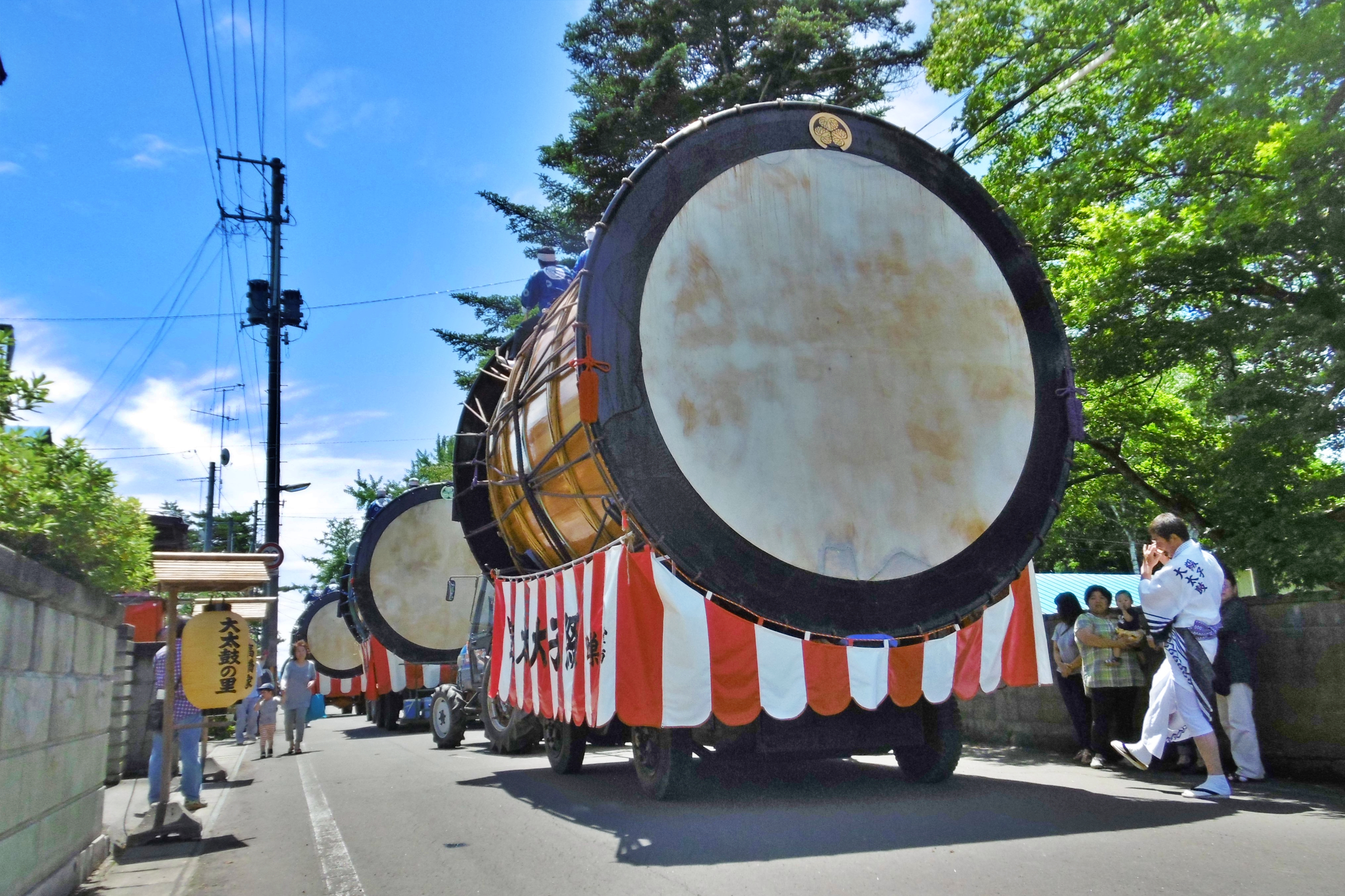 Tsuzureko shrine festival in Kitaakita City, Akita Prefecture, Japan